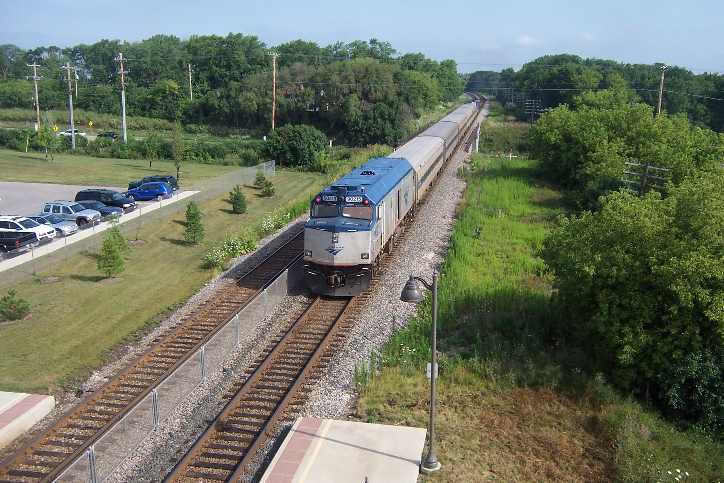 An Amtrak train departs Sturtevant northbound to Milwaukee, as seen from the station bridge